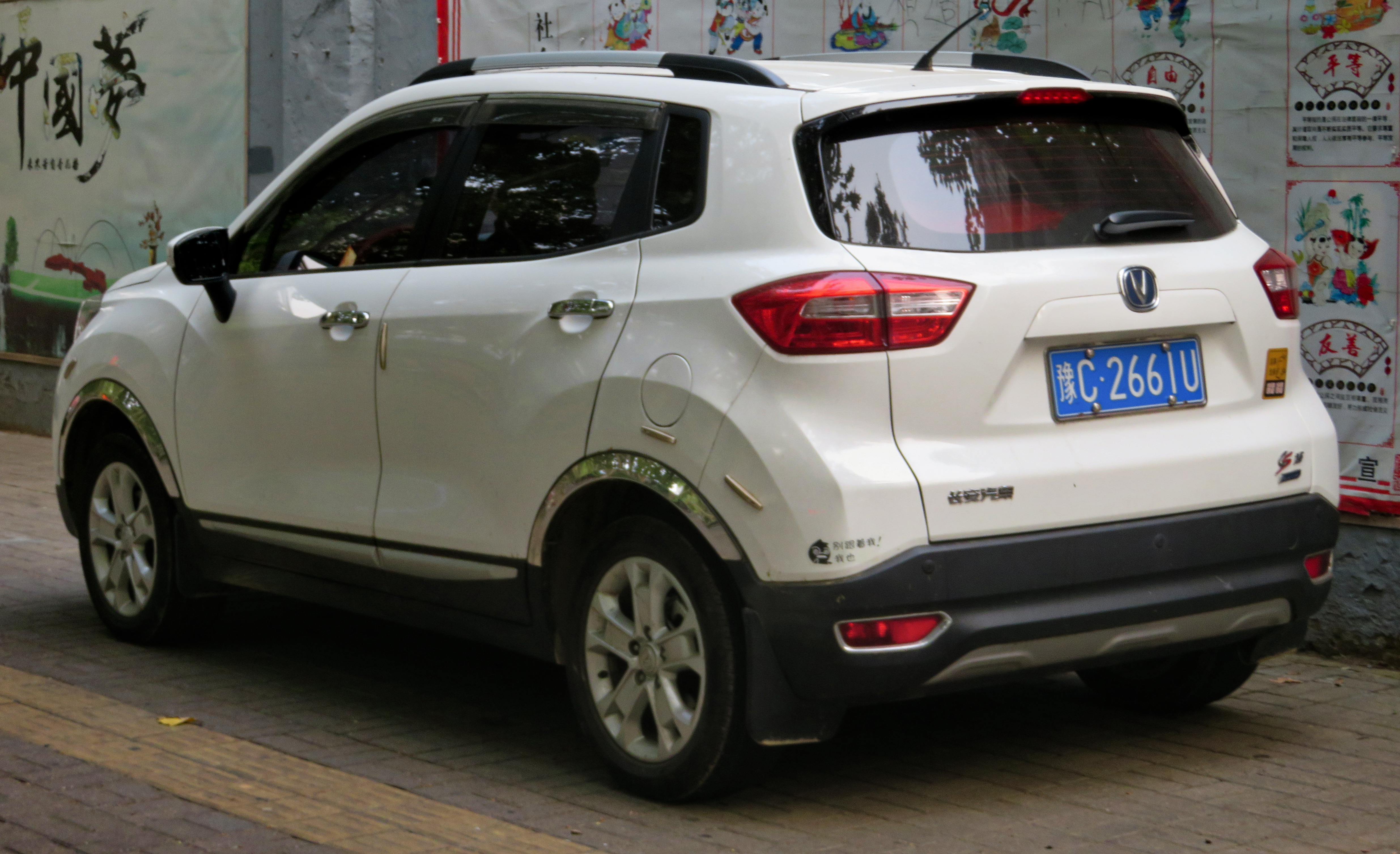 A 2018 Chang'an CS15 photographed in Xigong District, Luoyang, Henan province, China